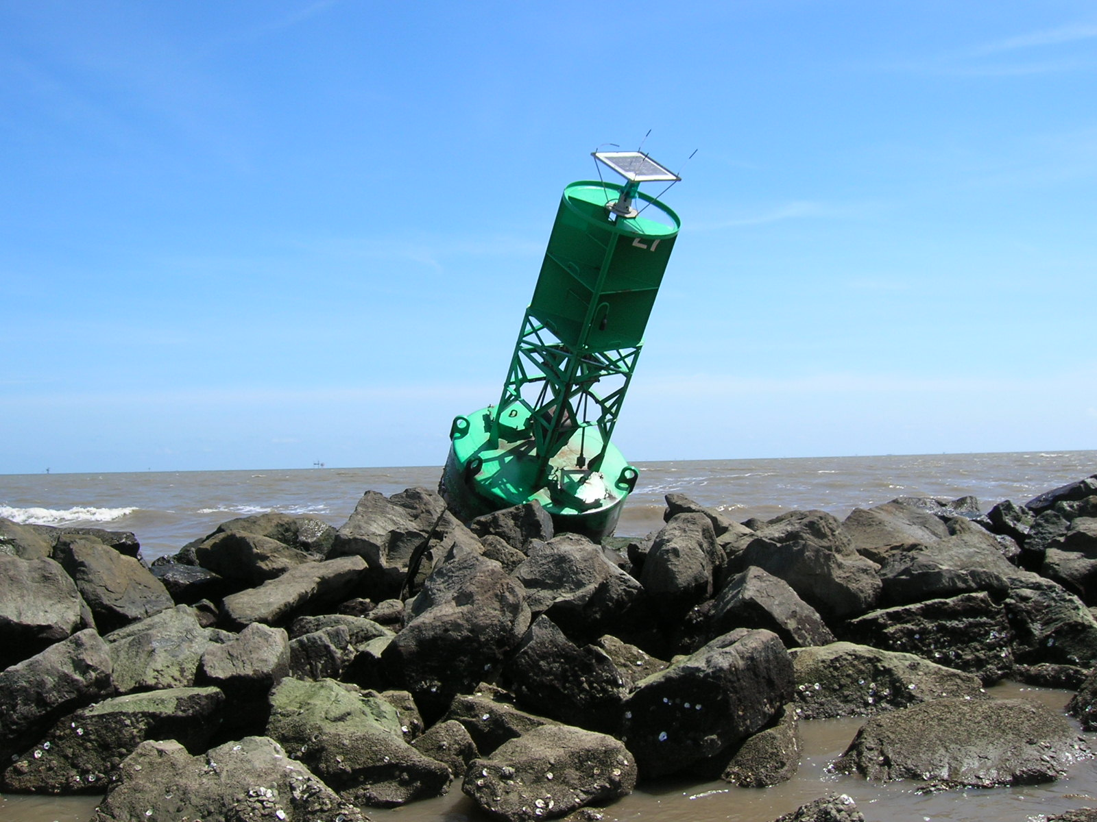 This navigational buoy was snapped loose and beached 1 mile from Holly Beach, LA by Tropical Storm Edouard 2008.